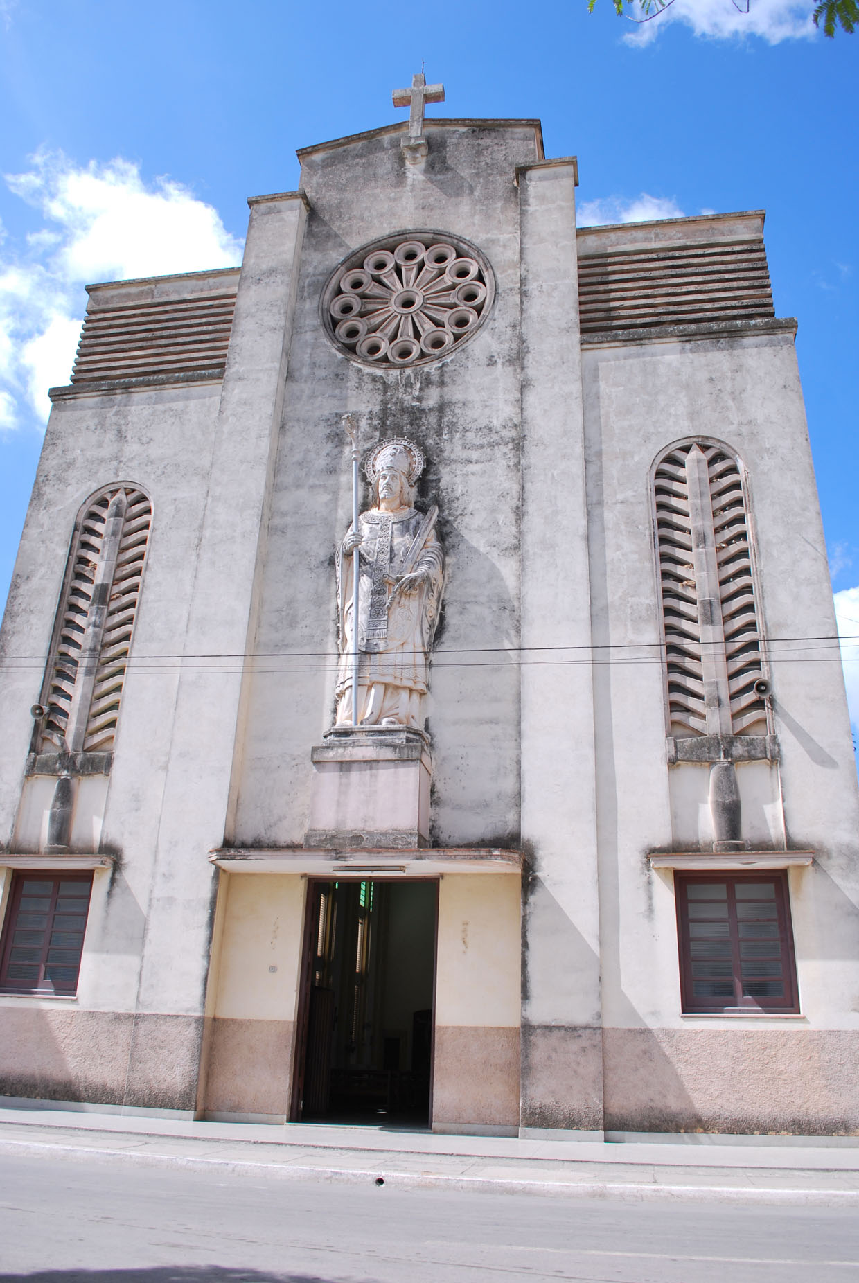 Frontside of Saint Eugenio of the Palm Cathedral in Ciego de Avila City